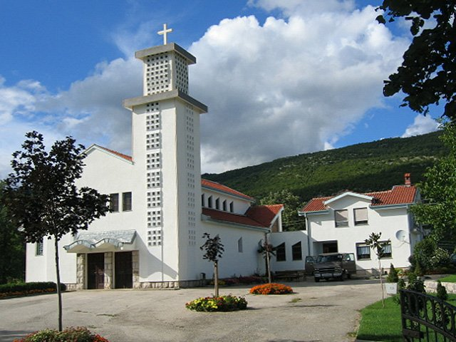 Church in Izbično,village near Široki Brijeg,Bosnia and Herzegovina.